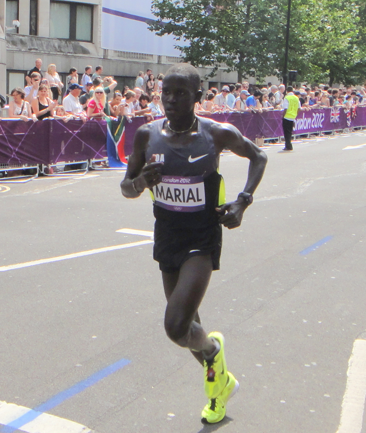 Guor Marial (Independant Olympic Athlete) - London 2012 Men's Marathon